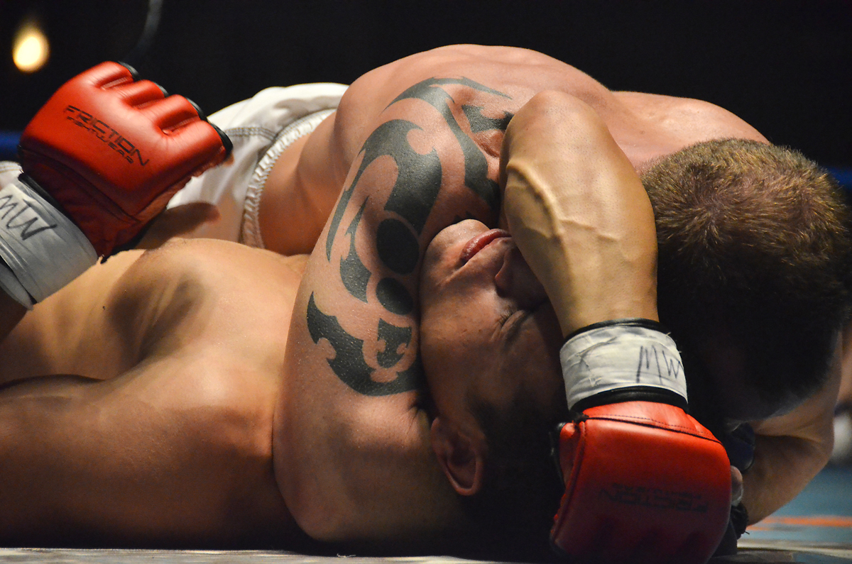 A Mixed Martial Artist attempts an Arm triangle choke in an amateur MMA event.